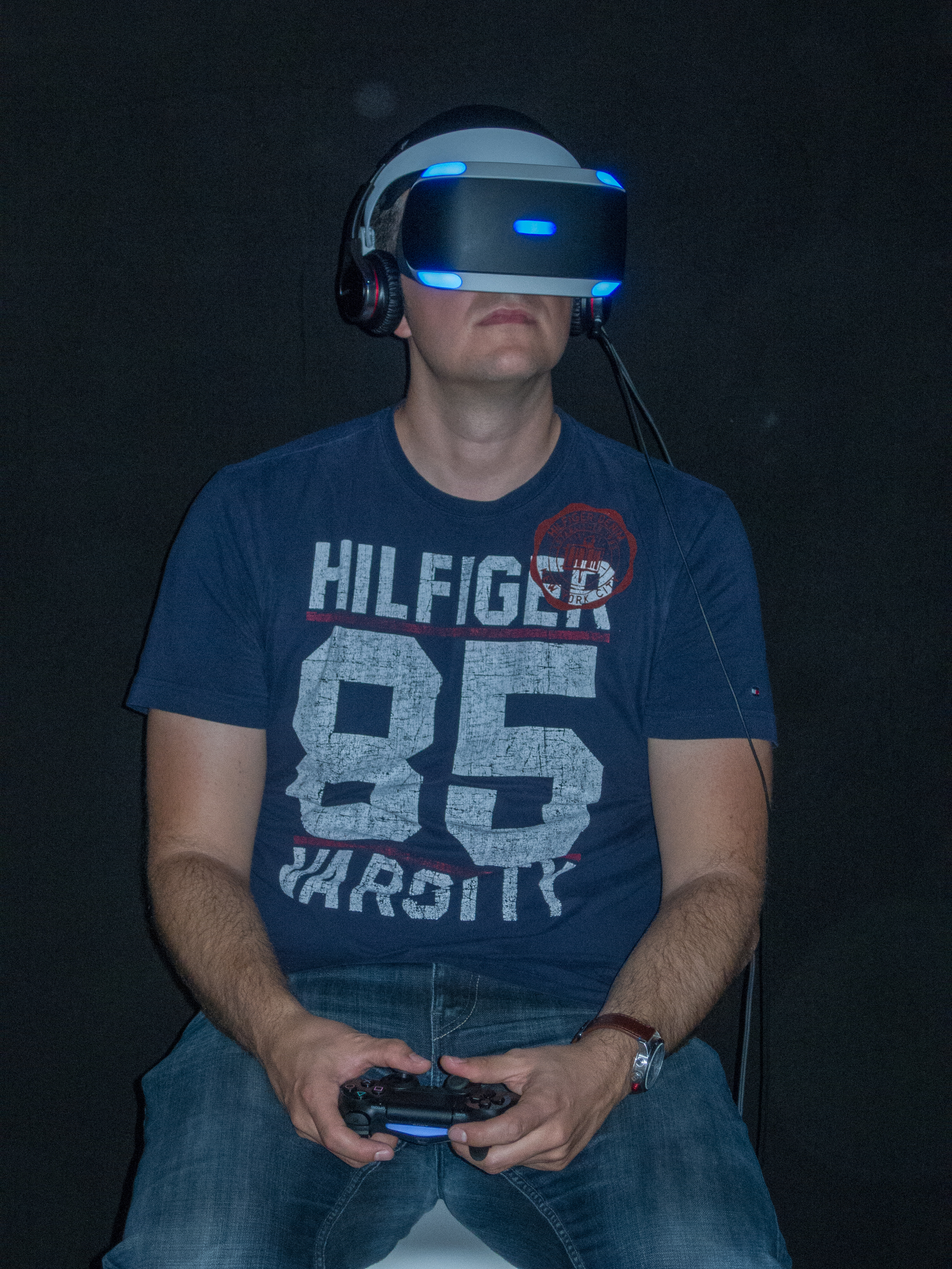 Sony Morpheus Virtual Reality Gamescom 2015 Cologne